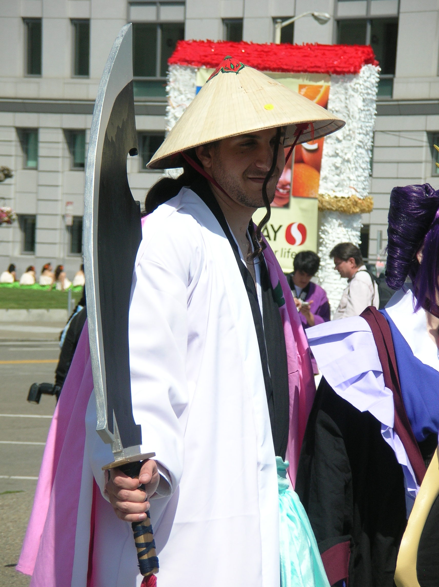 A cosplayer portraying the character Shunsui Kyoraku from Bleach competing in the anime costume contest at the 2010 Northern California Cherry Blossom Festival.